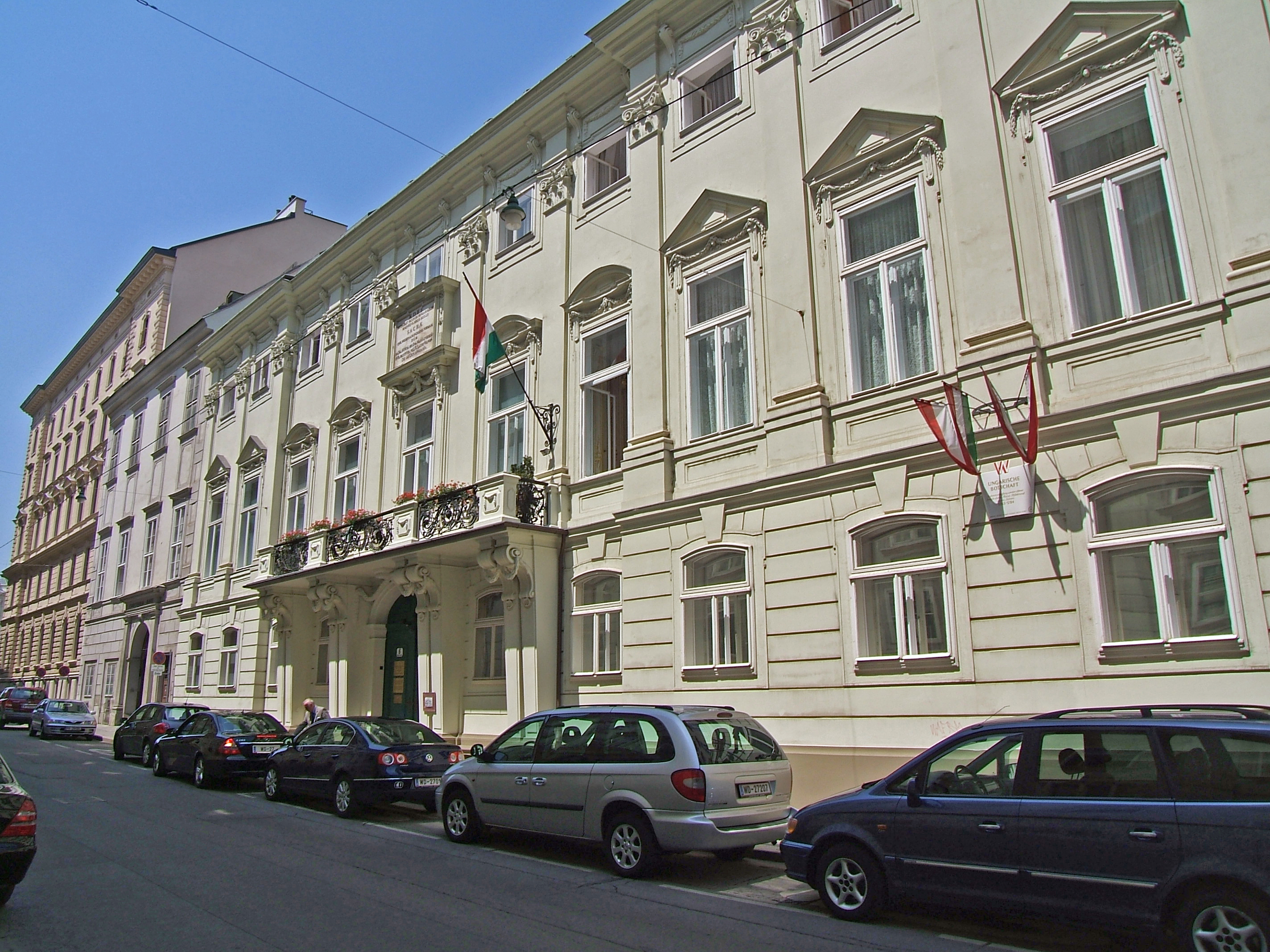 Palais Strattman in Vienna Bankgasse 4-6, Embassy of Hungary